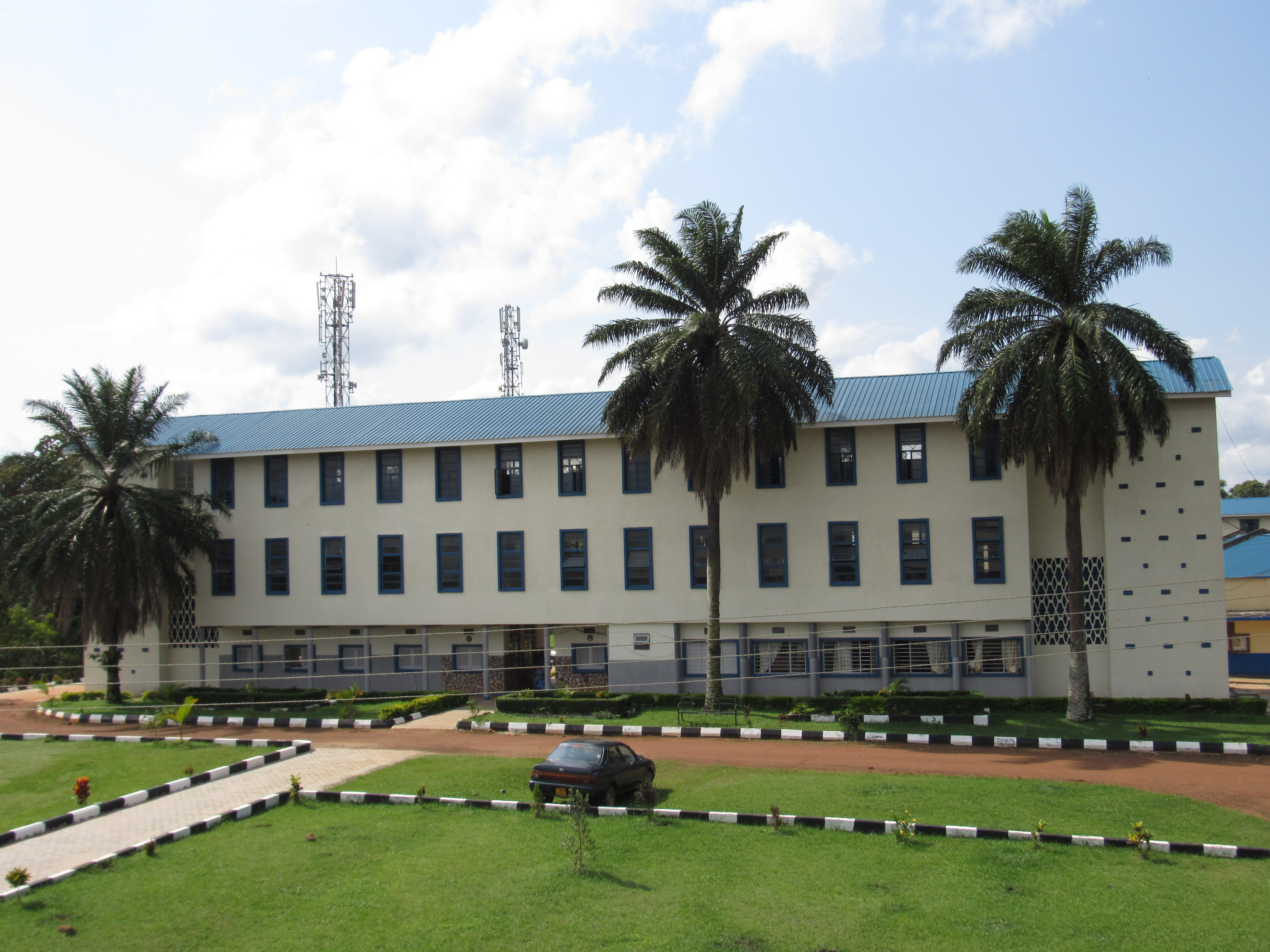 The Administration Block viewed from the Engineering facility. Luganda: Ebizimbe ebisangibwa ku ttabi ekulu erya Muteesa I Royal University